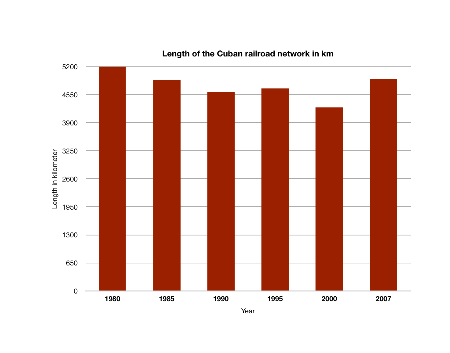 Length of the Cuban railroad network in kilometer according to CEPAL.